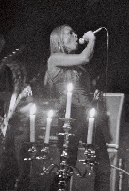 The legendary festival by Capsule at the Custard Factory, Birmingham, 2009.